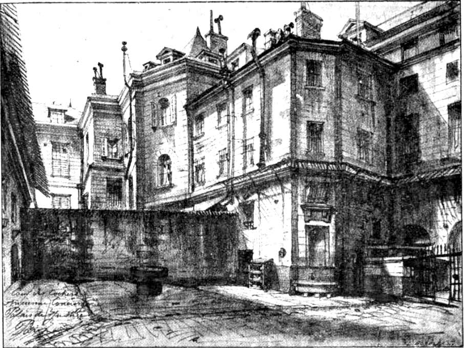 The Women's Quarter in the Conciergerie Prison in Paris, France.